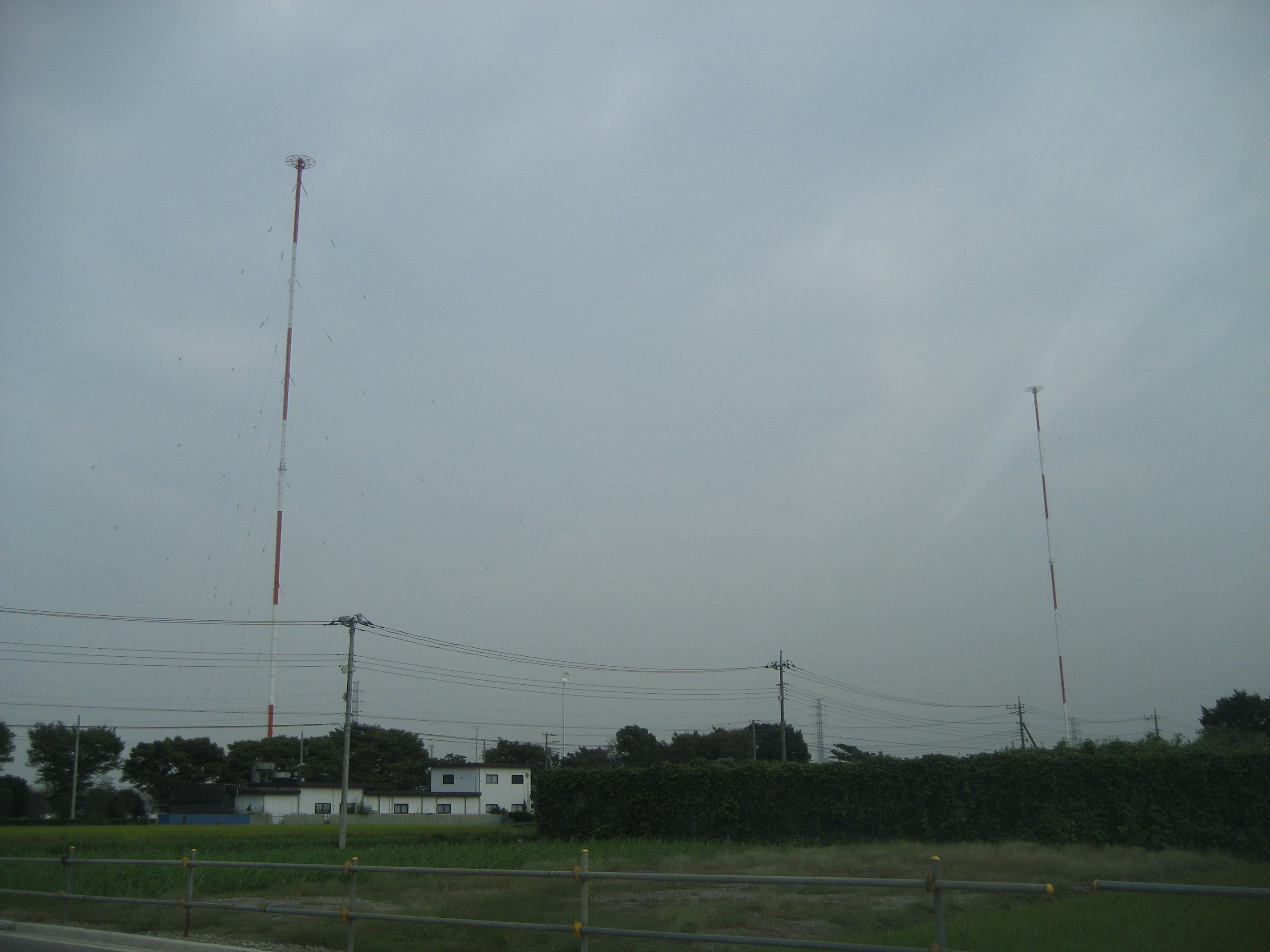 Shobu-Kuki transmitter NHK Radio 1:JOAK 594kHz 300kW NHK Radio 2:JOAB 693kHz 500kW